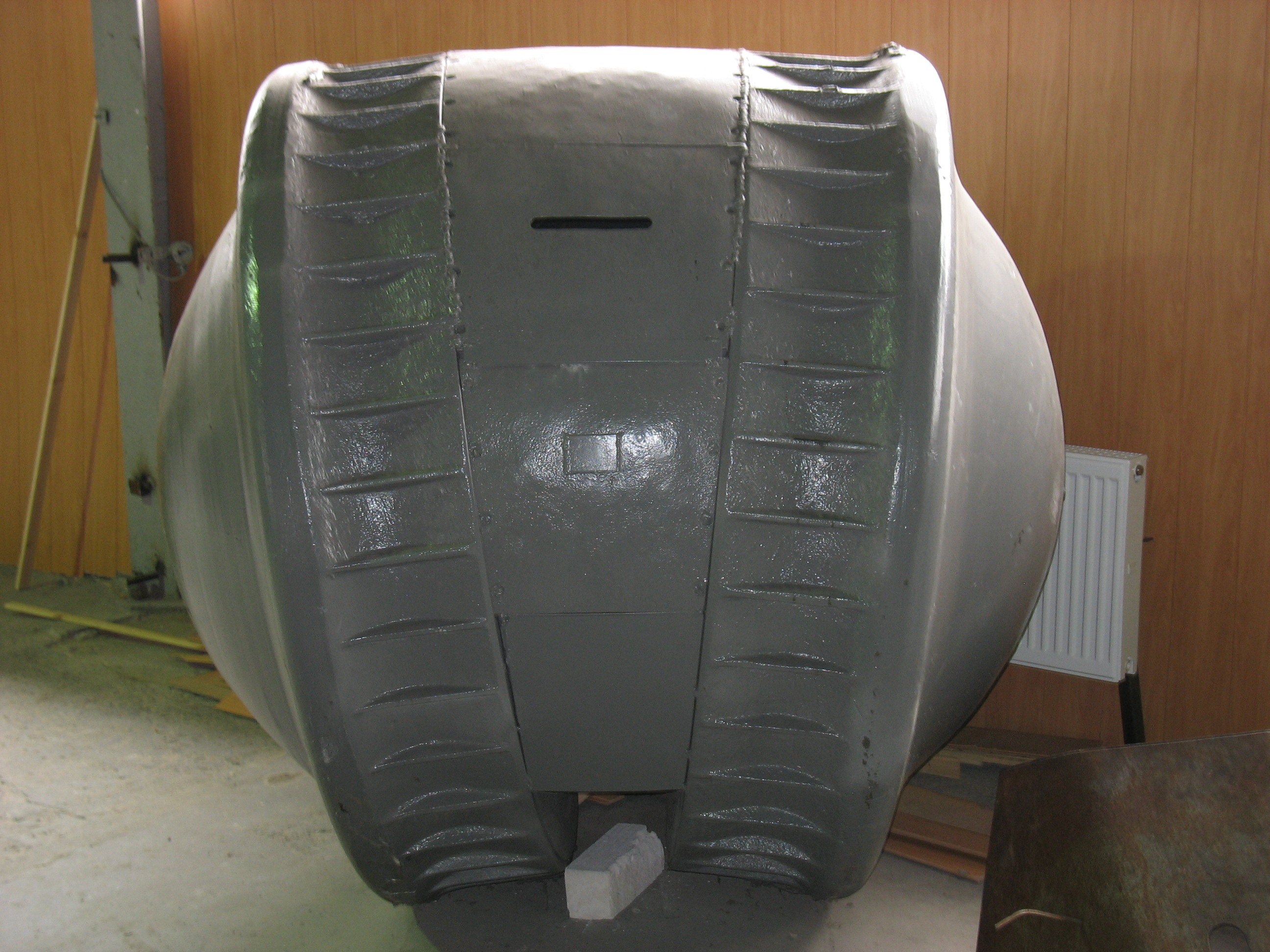 German WWII Kugelpanzer vehicle in Kubinka tank museum